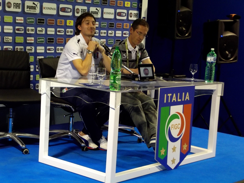 Riccardo Montolivo attends a press conference ahead of semi-final against Germany on June 26, 2012 in Krakow.